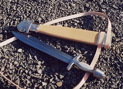 Xiphos by Manning Imperial